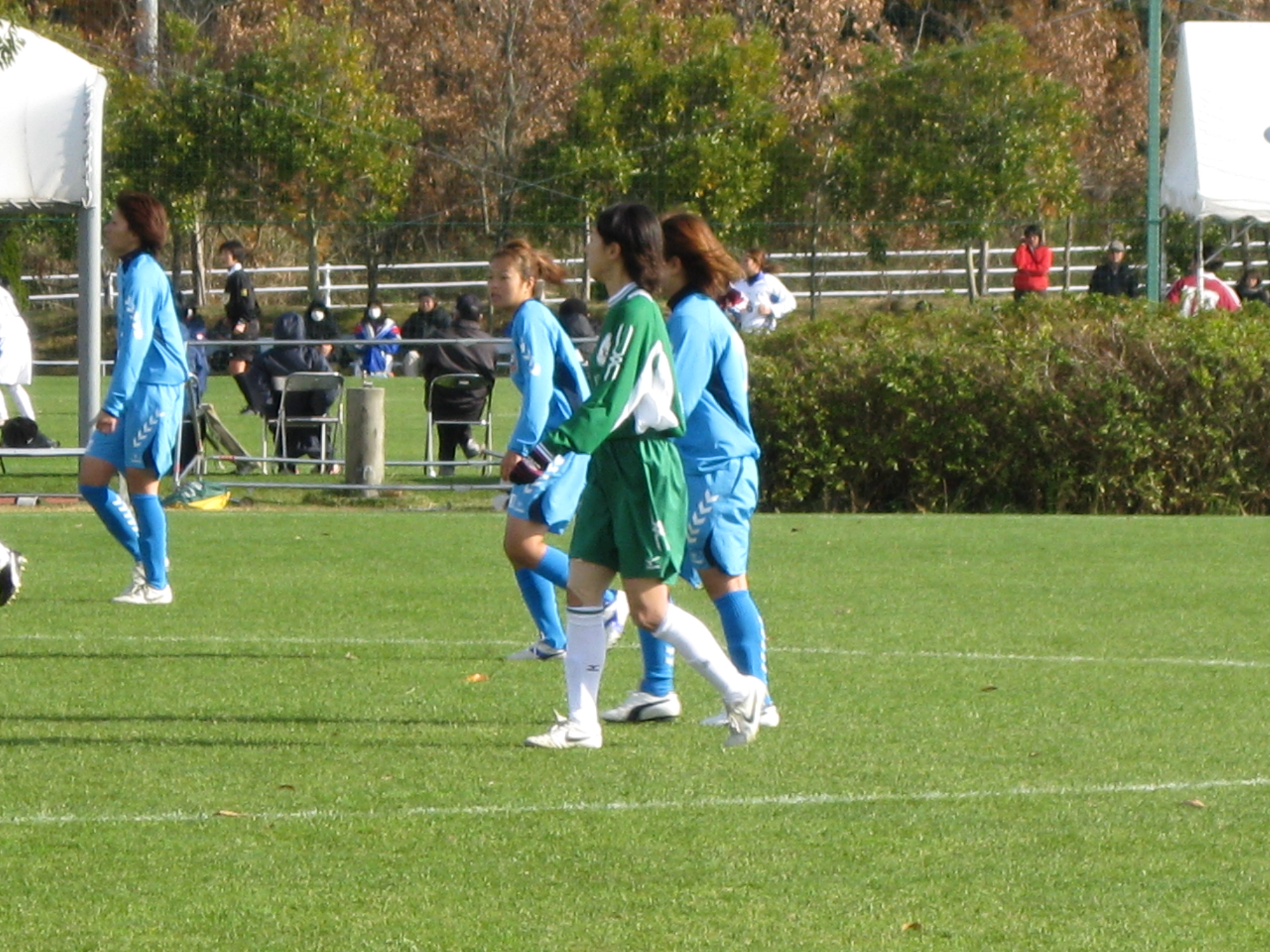 Osaka University of Health and Sport Sciences LFC vs. Shizuoka Sangyo University LFC at group league match of All-Japan Intercollegeate Women's Football Championship